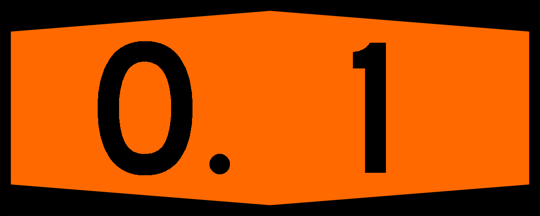 Otoyol 1 sign